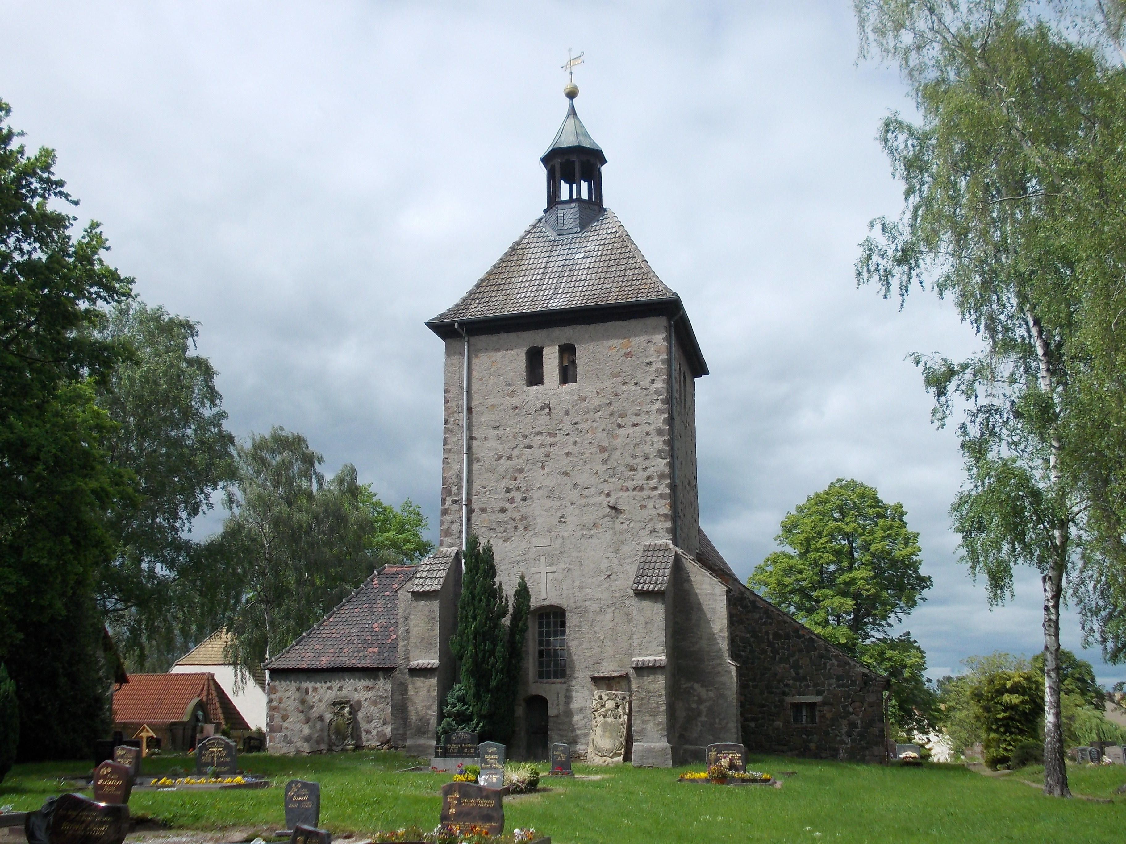 Pehritzsch church (Jesewitz, Nordsachsen district, Saxony)